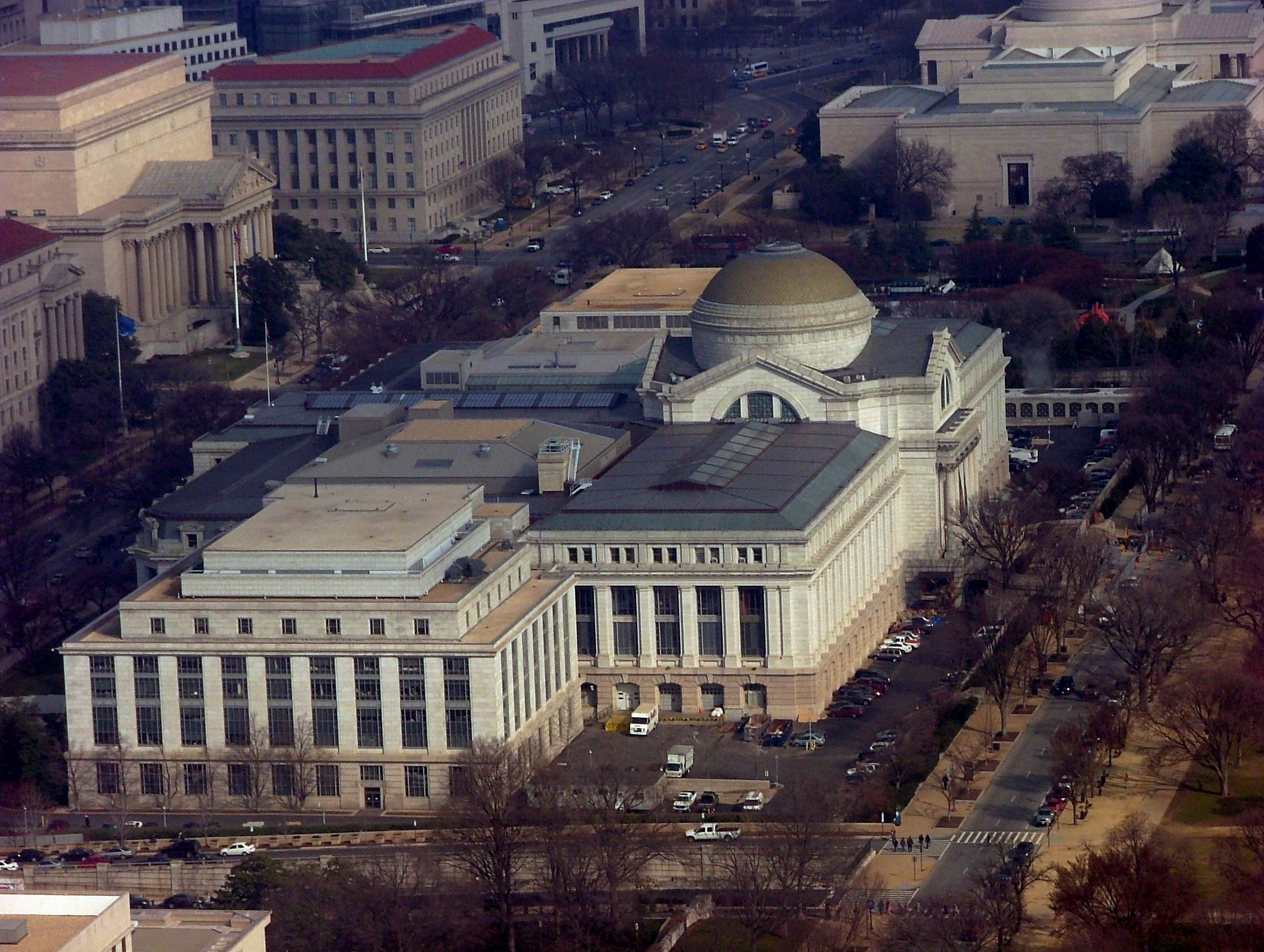 Another view of the East from the Washington Monument